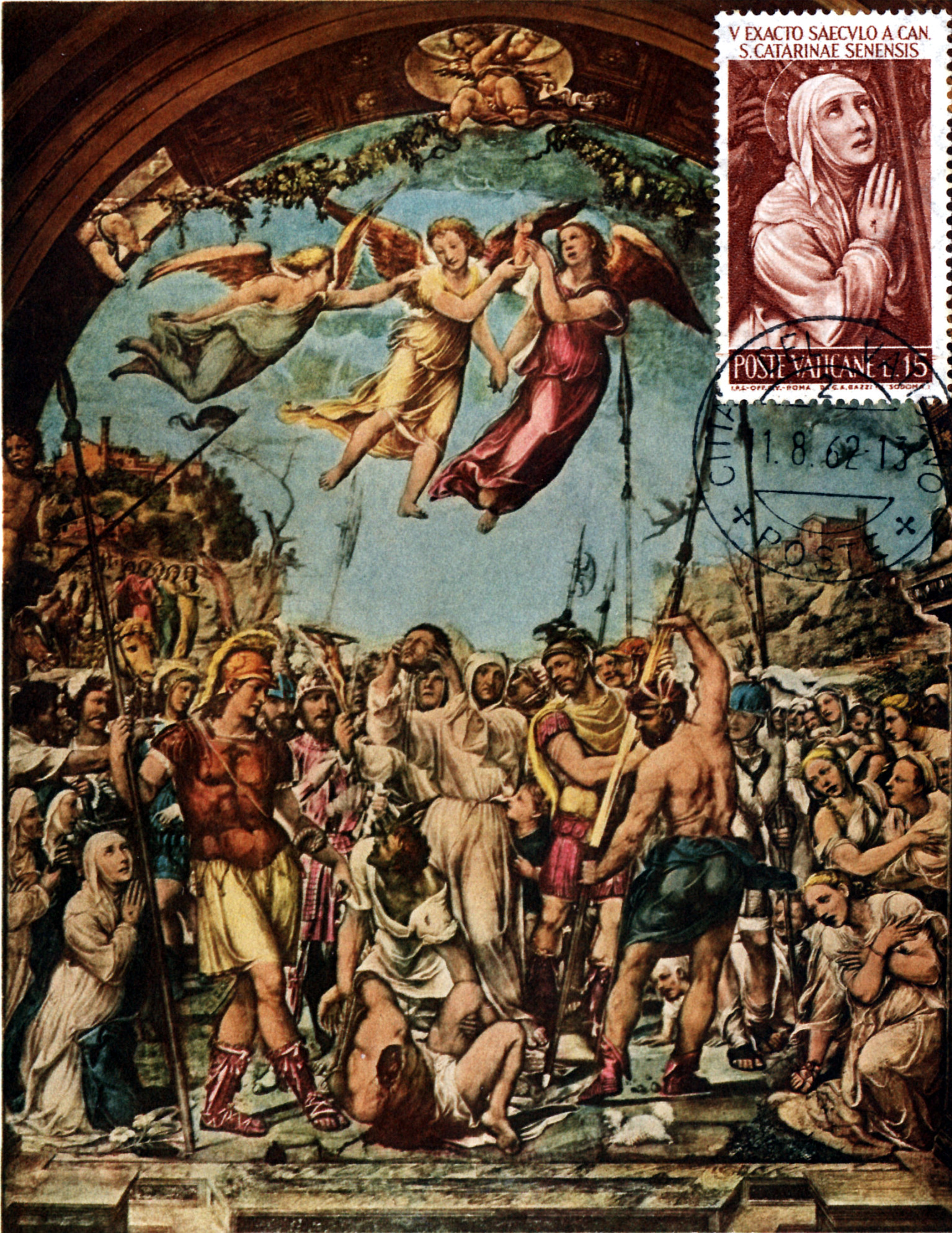 Catherine of Siena praying for a soul of heretic (Massacre in Florence?)